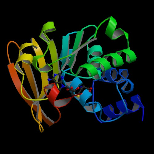 Ryttersgaard, Carsten, and Yeates, Todd O. (2002) Crystal Structure of Human L-Isoaspartyl Methyltransferase. J. Biol. Chem., 277, 10642-6 Entrez PubMed 11792715 [1] - The contents of Protein DataBank are in the public domain if the author is cited. This particular research finding was funded by the US Government.